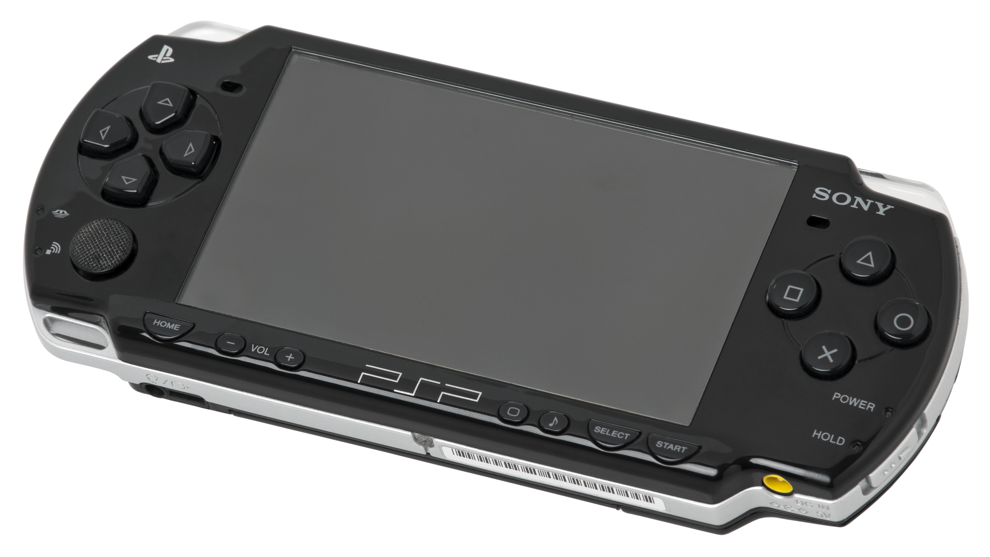 The PSP-2000, or the second version of the PSP. This improved upon the previous by being thinner and lighter.